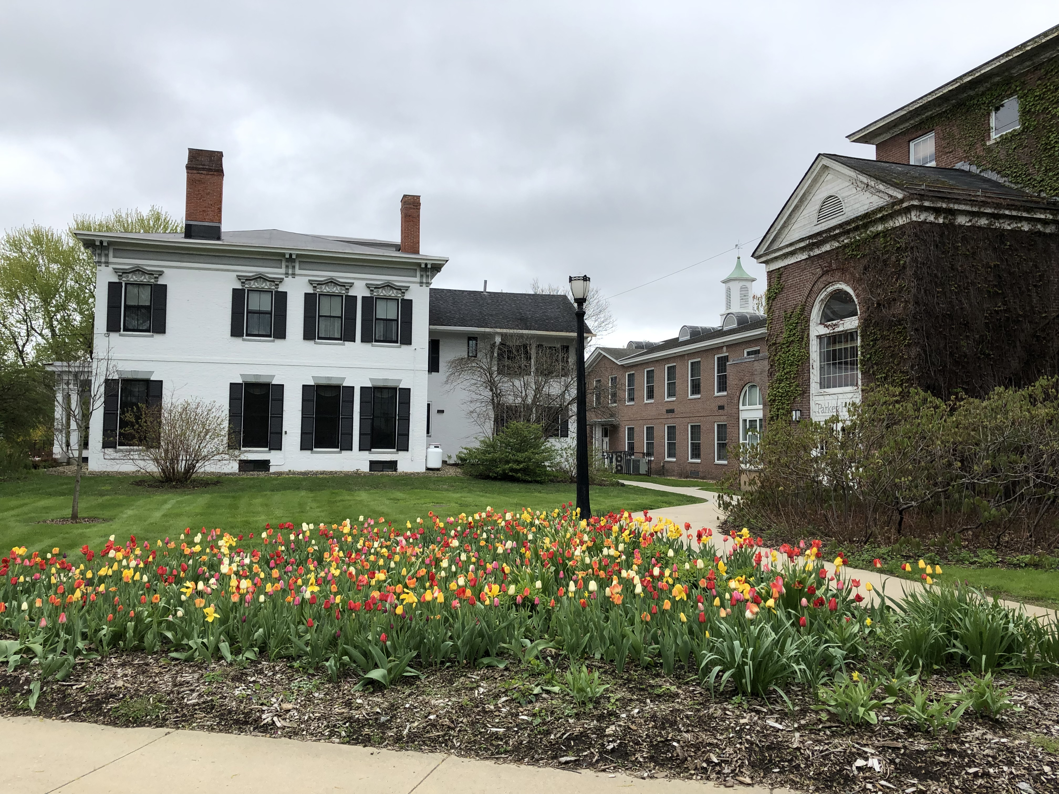 Campus of Keene State College, Keene, New Hampshire